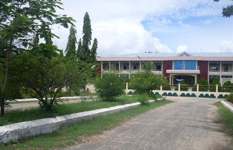 University of community health,magway